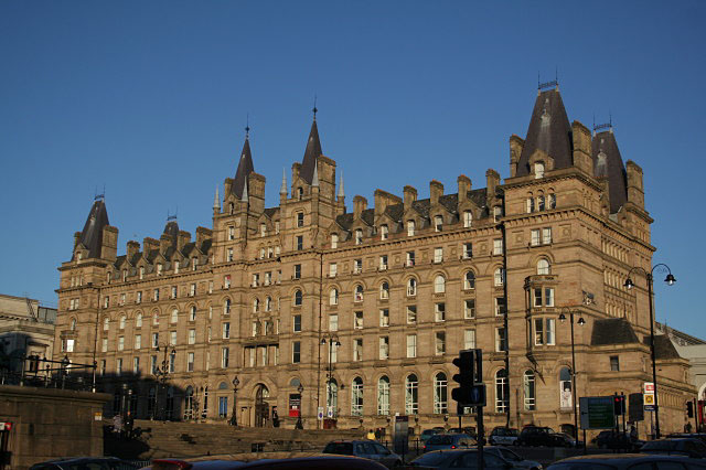 North Western Hotel Built by the London and North Western Railway as a station hotel, it became redundant when the new Adelphi Hotel was built and became offices. When these were vacated, the building lay empty for a number of years before being taken over by the Liverpool John Moores University.